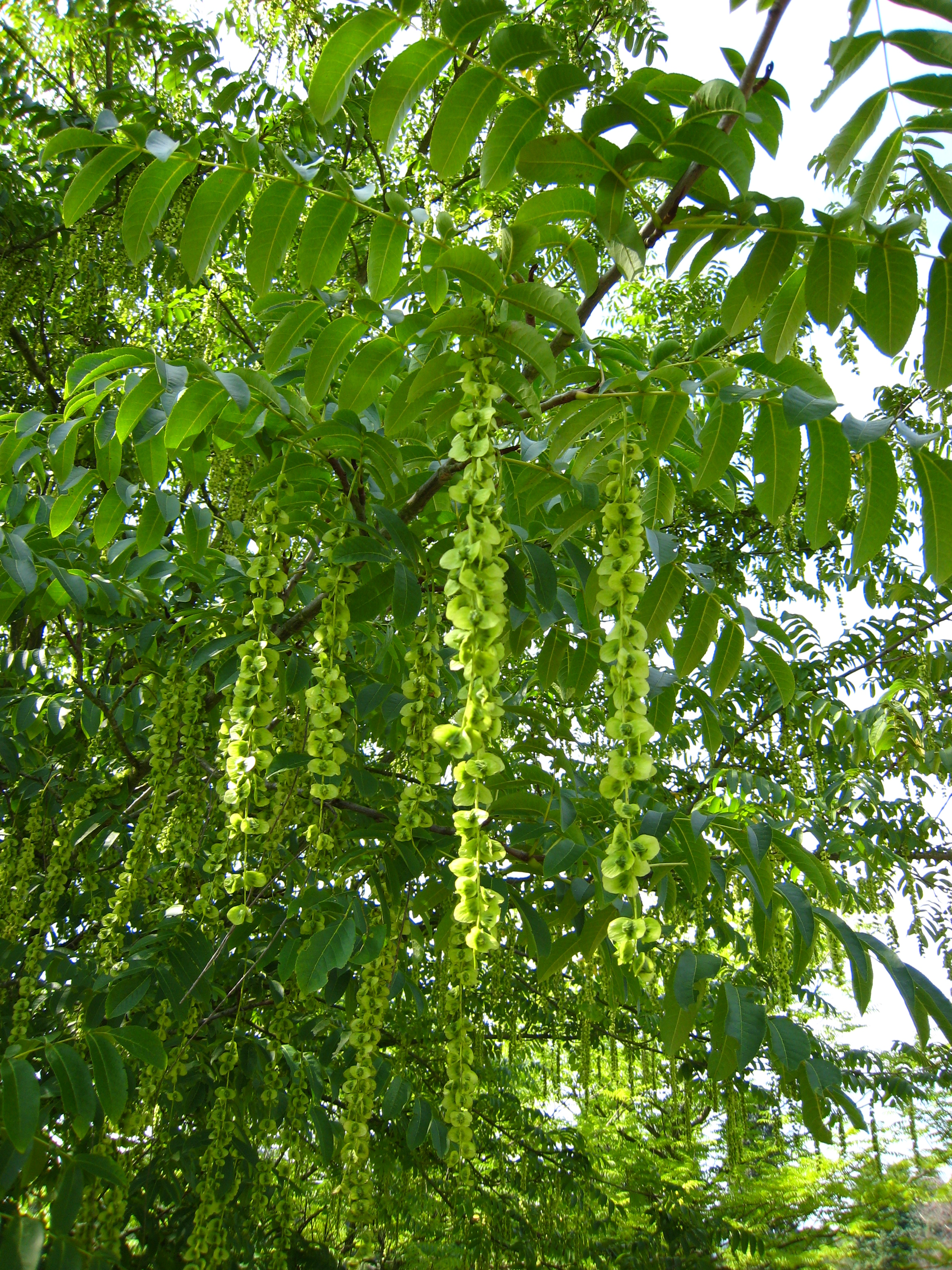 Pterocarya fraxinifolia (syn. P. caucasica) in the Arboretum de Chèvreloup in Rocquencourt